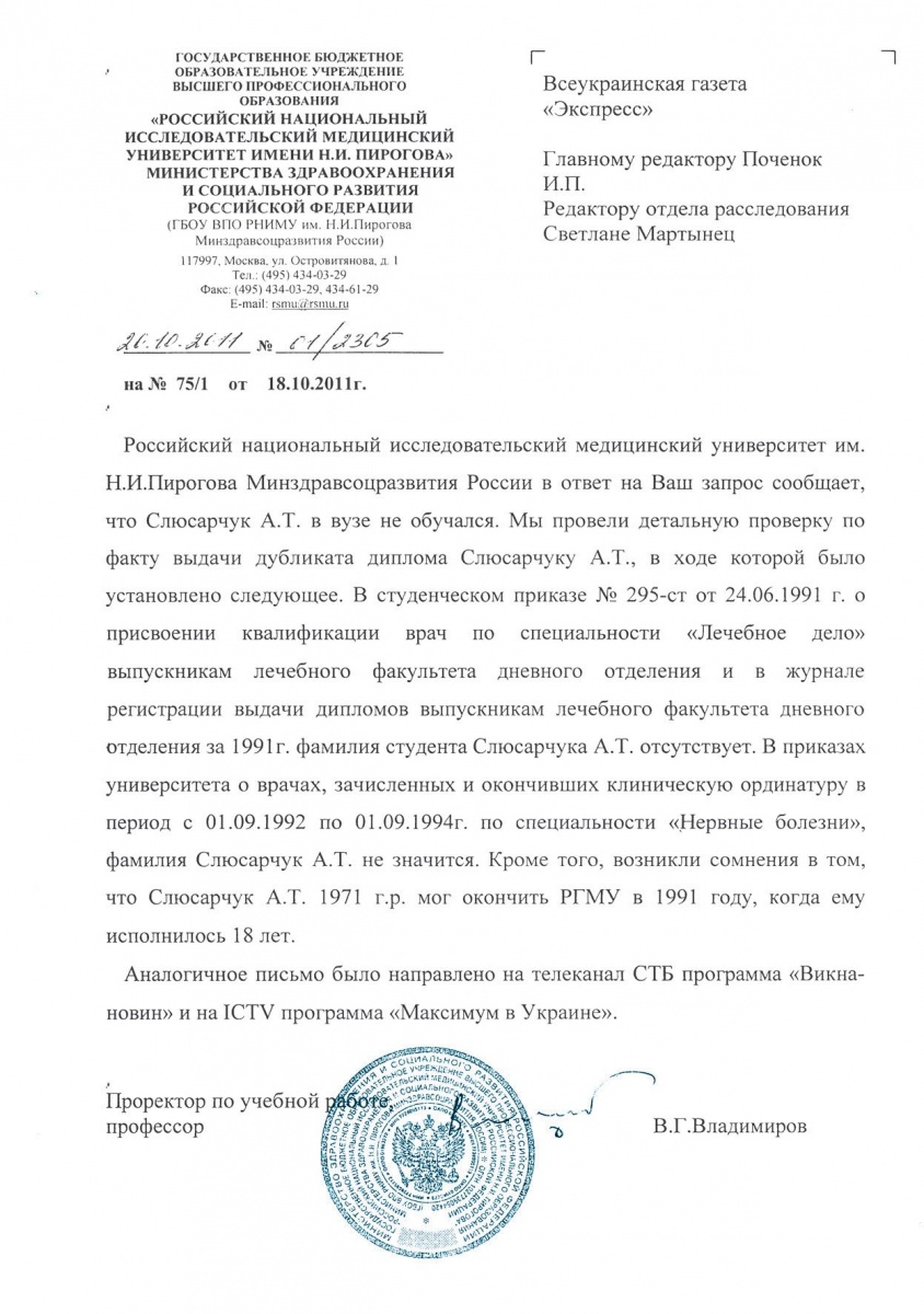 Slyusarchuk is not a doctor